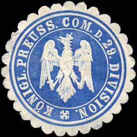 Sealing stamp Title: K. Pr. Commando der 29. Division Description: Place: Freiburg/Baden size: 4 cm